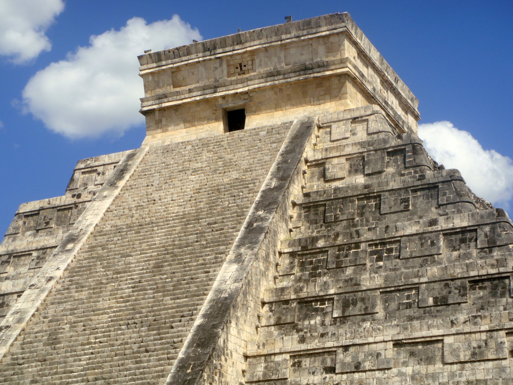 Detail of the top of "El Castillo" pyramid-temple devoted to the Mayan god Kukulkan (Quetzalcoatl ) at Chichén Itzá, Yucatan, Mexico